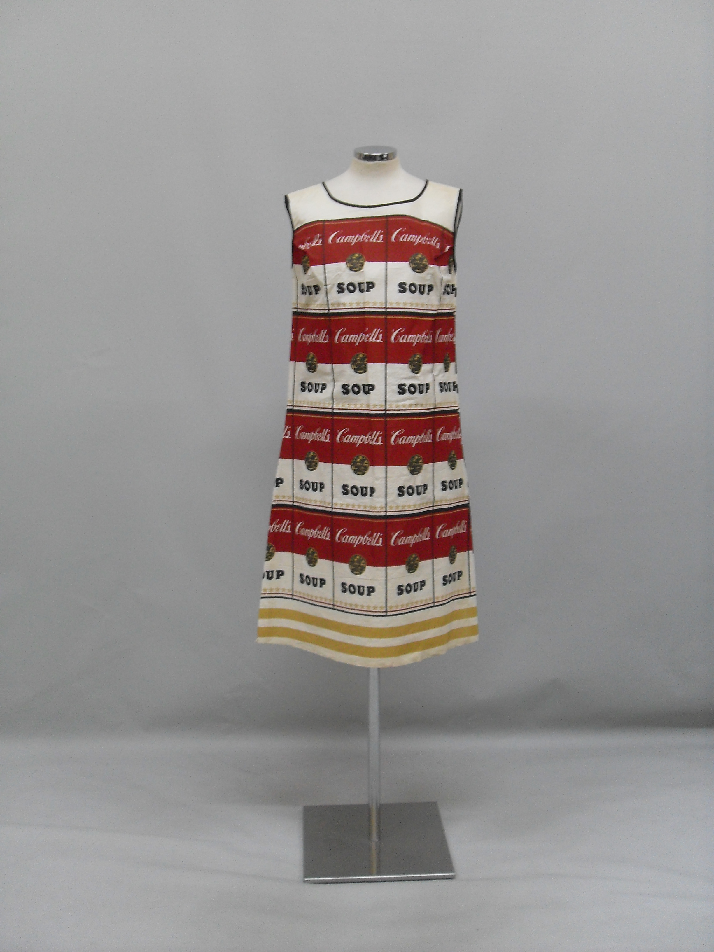 "Souper Dress". American paper dress, 1967, based on Andy Warhol's Campbell's soup paintings. Peloponnesian Folklore Foundation collection, 2005.6.396